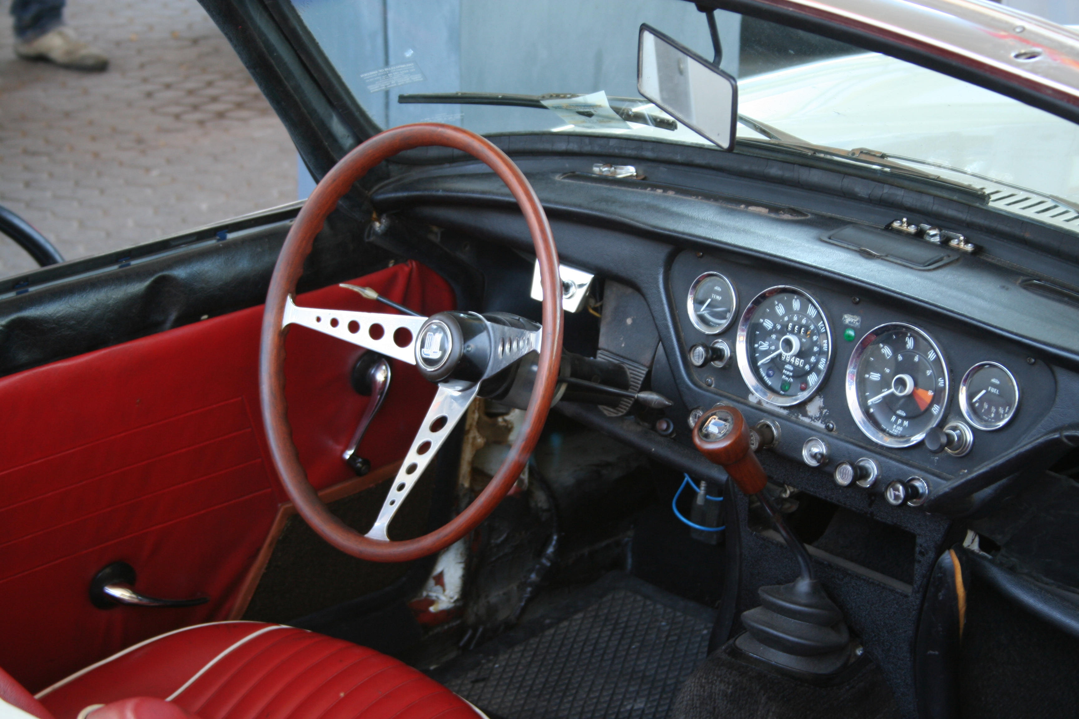 Interior in a 1965 Triumph Spitfire 4 Mk2.